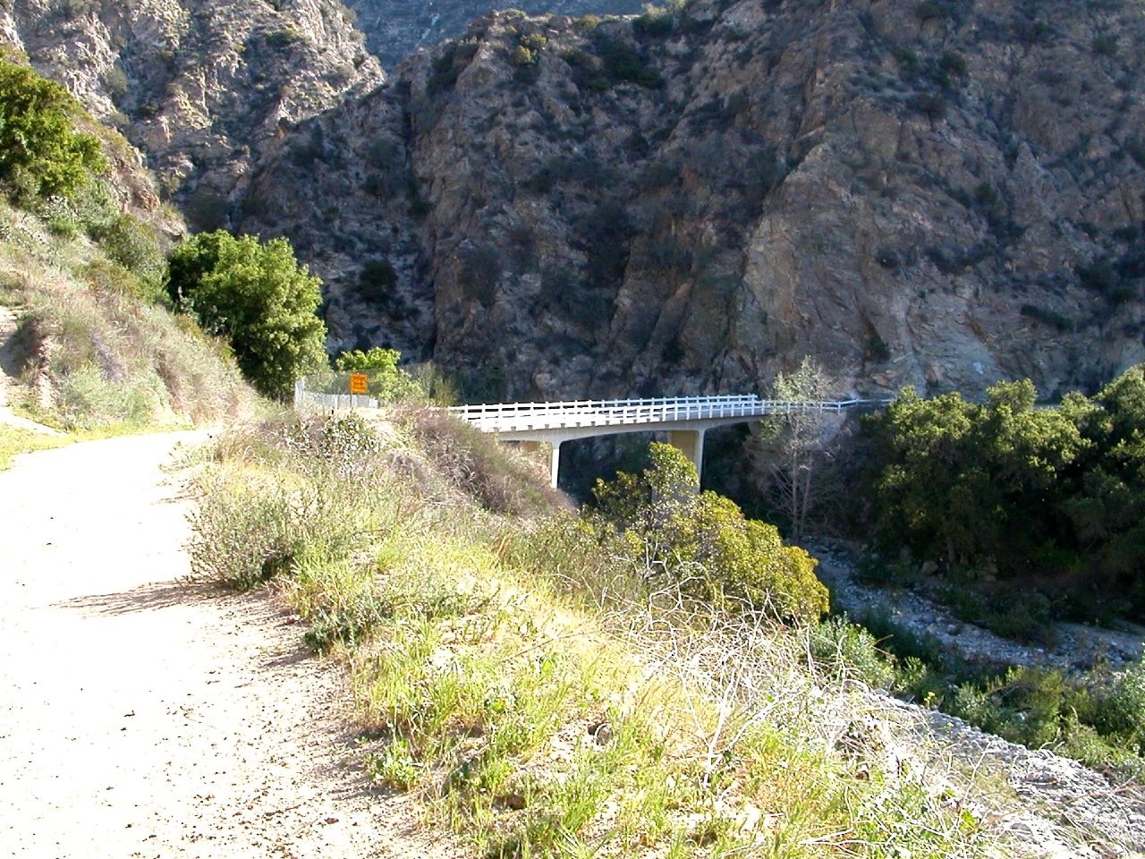 Bridge on Eaton Canyon, right before the landslide.DSCN0469